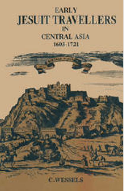 Cover of 1924 edition of Early Jesuit Travellers in Central Asia